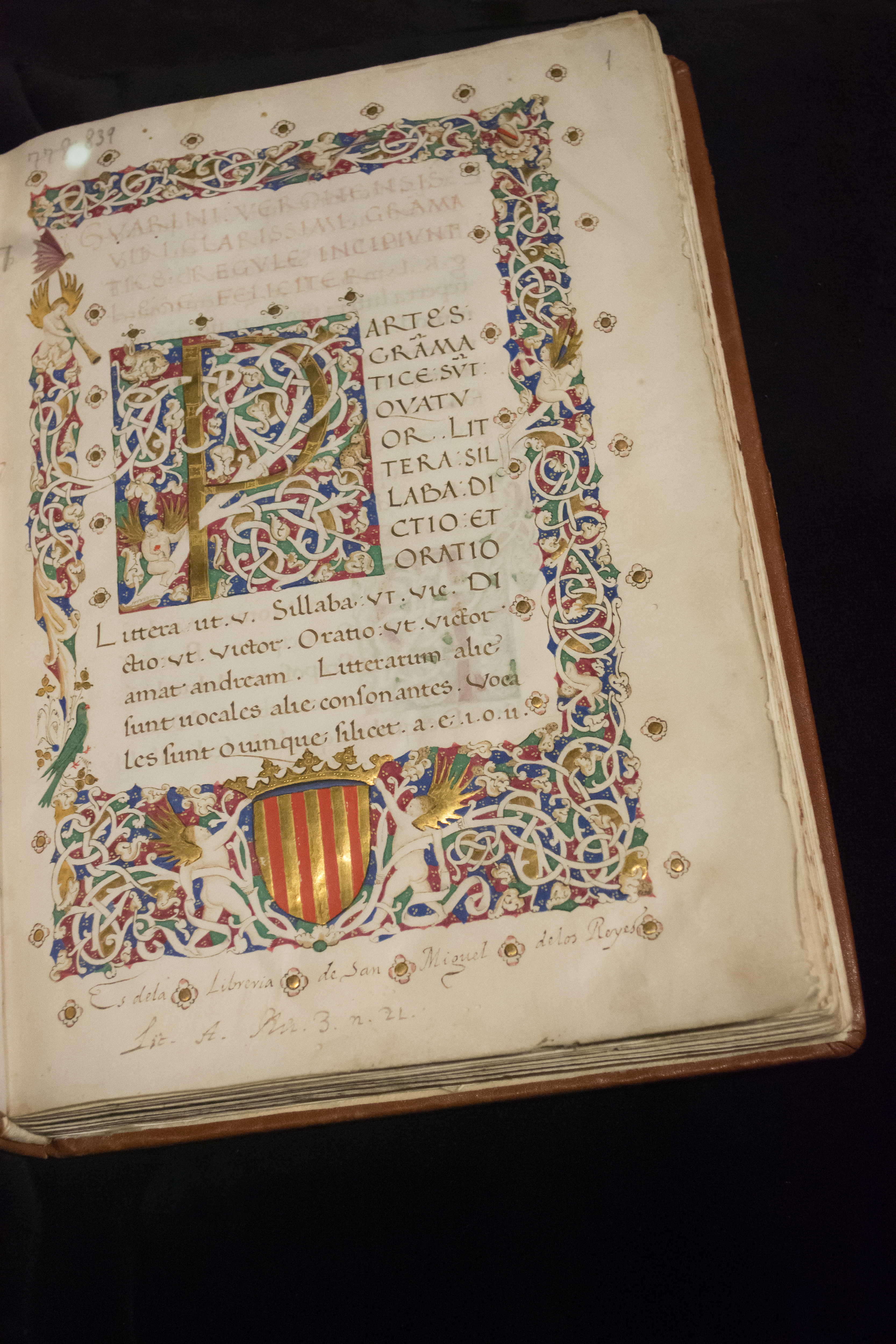 This manuscript written in 1450 in humanistic writing on vellum, by the copyist Gabriel Altadell, transcribes the grammatical works of Guarino Veronese. From the first, Regulae grammaticales a large number of manuscripts and incunabula were produced, given their success. Decoration: minian orle in gold and colors with bianchi girari '. Ornamental motifs are small putti, a bird and a butterfly. Coat of Aragon quadribarred with royal crown, supported by two golden-winged putti. Provenance: Naples. Language: Latin. 104 pages. 267 x 195 mm, binding 280 x 195 mm. Bookinding: skin on wood engraved in dry and golden cut with the title and the name of the author. Collection Duke of Calabria. University of Valencia. Historical Library. BH Ms. 839.